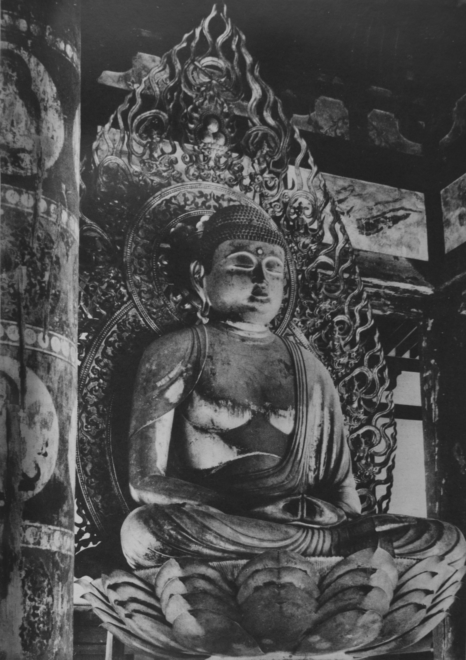 Hokaiji, Kyoto, Japan